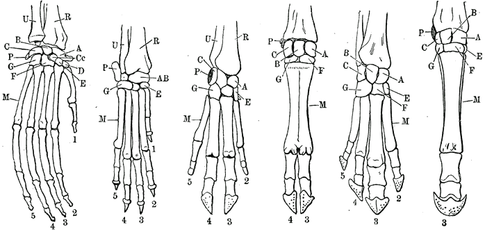 Figure from Meyers Lexicon Conversion 1888 - Skeletons of mammalian hands. From left to right: Orangutan ; Dog ; Swine ;Cattle; Tapir; Horse Abbreviations: R, Radius; U, Ulna; A-G, Cc, P, carpals; A, Scaphoideum; B, lunar; C, "Triquetum"; D, trapezium; E, trapezoids; F, Capitatum; G, Hamatum; P, Pisiform; Cc, central carpal; M, metacarpal; 1-5, thumb and digits two to five.